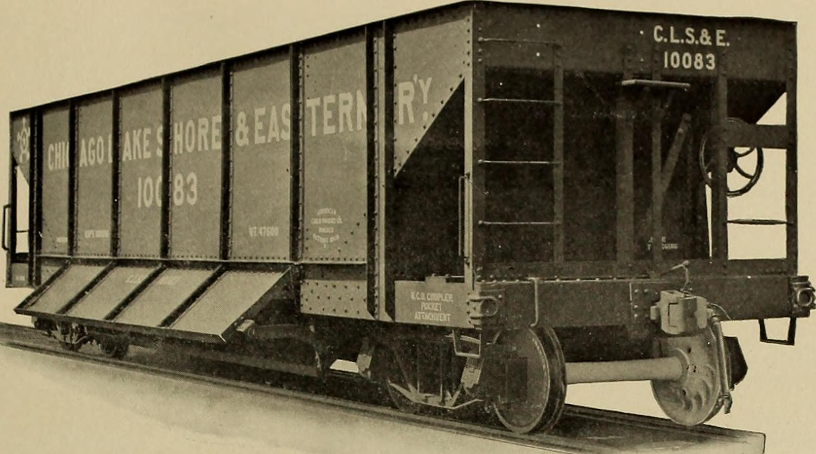 Identifier: steelrailstheirh01sell Title: Steel rails; their history, properties, strength and manufacture, with notes on the principles of rolling stock and track design Year: 1913 (1910s) Authors: Sellew, William Hamilton, 1875- Subjects: Railroad rails Publisher: New York, D. Van Nostrand Text Appearing Before Image: 1 P. R. R.10 7223 ■t BO.WI. f ^ ■%*i300 -.Jl Ji-*-. 1 ■■ i PE,iN-NlSYLV,A -^ • ■ 1 in I^Ll. - ^ ^ ^^~^ r» , f^ ■.■■-• nmmmm 1-^ -. ^: HhW^ i r -^ ■ ^^BIS^B m^^aiKtim^ mi Fig. 39. — Gondola Car. Wooden Body. Pressed Steel Underframe. Capacity 100,000 lbs. Weight 44,500 lbs. The proposed use of 80-ton freight cars with four-wheel trucks forspecial service f suggests some comparison of these loads with those imposedby the engine drivers. The proposed 80-ton car will weigh about 50,000pounds and the total weight of the loaded car will be 210,000 pounds, which,when carried by eight wheels, produces a static load on the rail of 26,250 pounds. Weights on drivers have always greatly exceeded the load on smaller carwheels, and the reason for this seems to have been the greater strength ofthe larger wheels. Owing to the work locomotive tires receive in rolling they * Railway Age Gazette, January 28, 1910. t Hiid-, December 22, 1911. PRESSURE OE THE WHEEL ON THE lUIL 83 Text Appearing After Image: Fig. 40. — Coke Car, All Steel. Capacity 100,000 lbs. Weight 47,600 lbs.